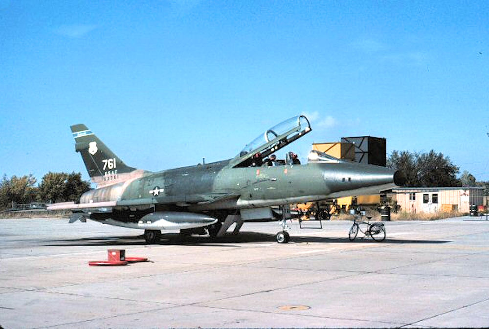 122d Tactical Fighter Squadron - North American F-100F-5-NA Super Sabre 56-3761 3761 hit a pine tree while flying out of Hill AFB, UT Oct 23, 1977. Plane was damaged but managed to land safely. Plane was not repaired since F-100 was being phased out. Later used for fire training at Hill AFB.